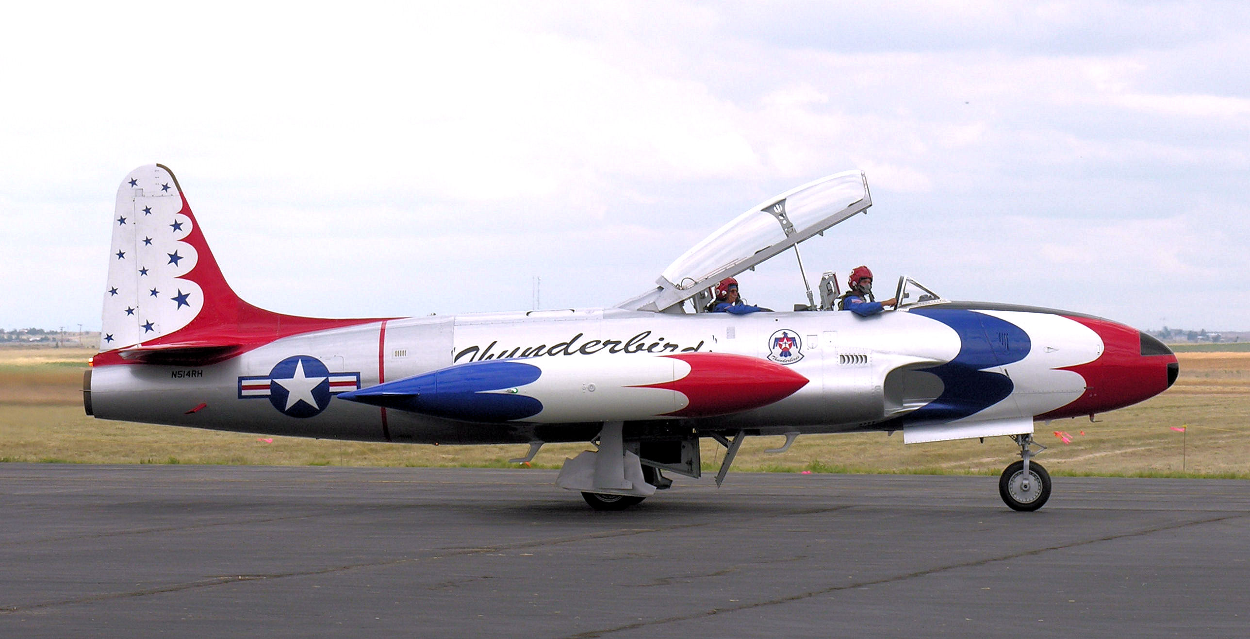 Thunderbirds Lockheed T-33 Shooting Star, Chino, California